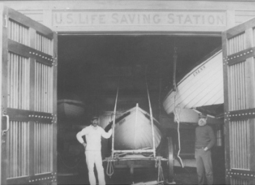 Point Allerton Lifesaving Station (Plymouth County, Massachusetts) This image or file is a work of a United States Coast Guard service personnel or employee, taken or made as part of that person's official duties. As a work of the U.S. federal government, the image or file is in the public domain (17 U.S.C. § 101 and § 105, USCG main privacy policy and specific privacy policy for its imagery server). Object location42° 18′ 20″ N, 70° 54′ 01″ W